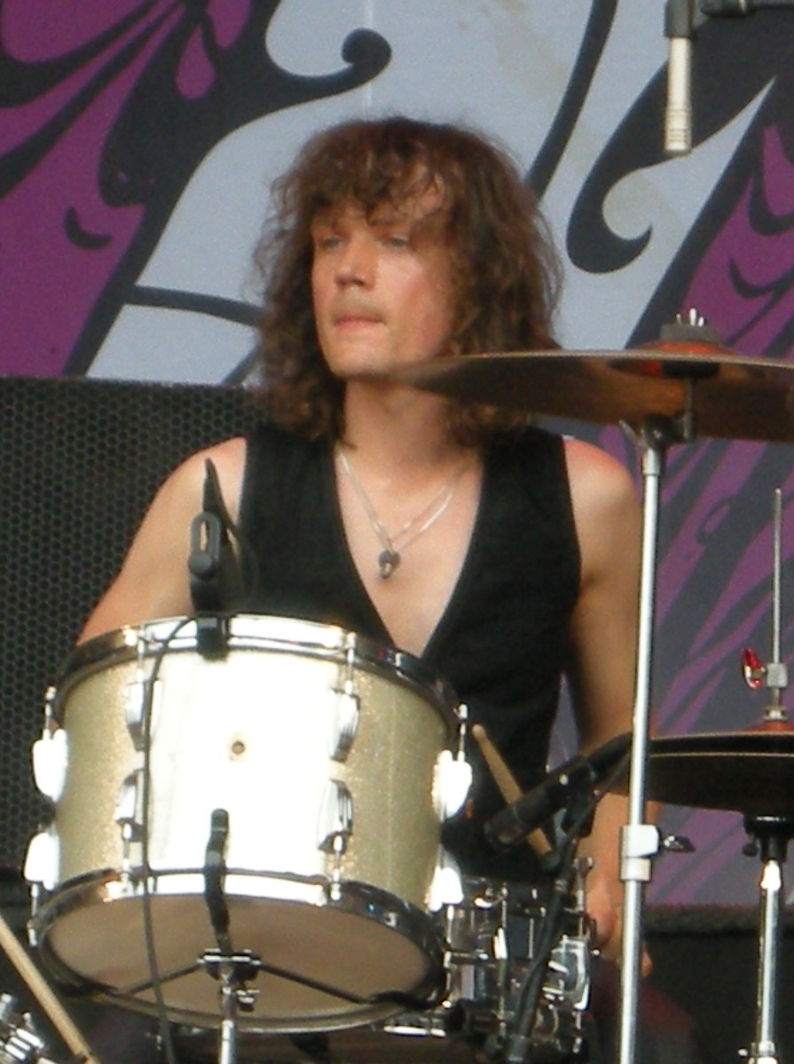 Ludwig Dahlberg, The (International) Noise Conspiracy, at Sonisphere Sweden 2009